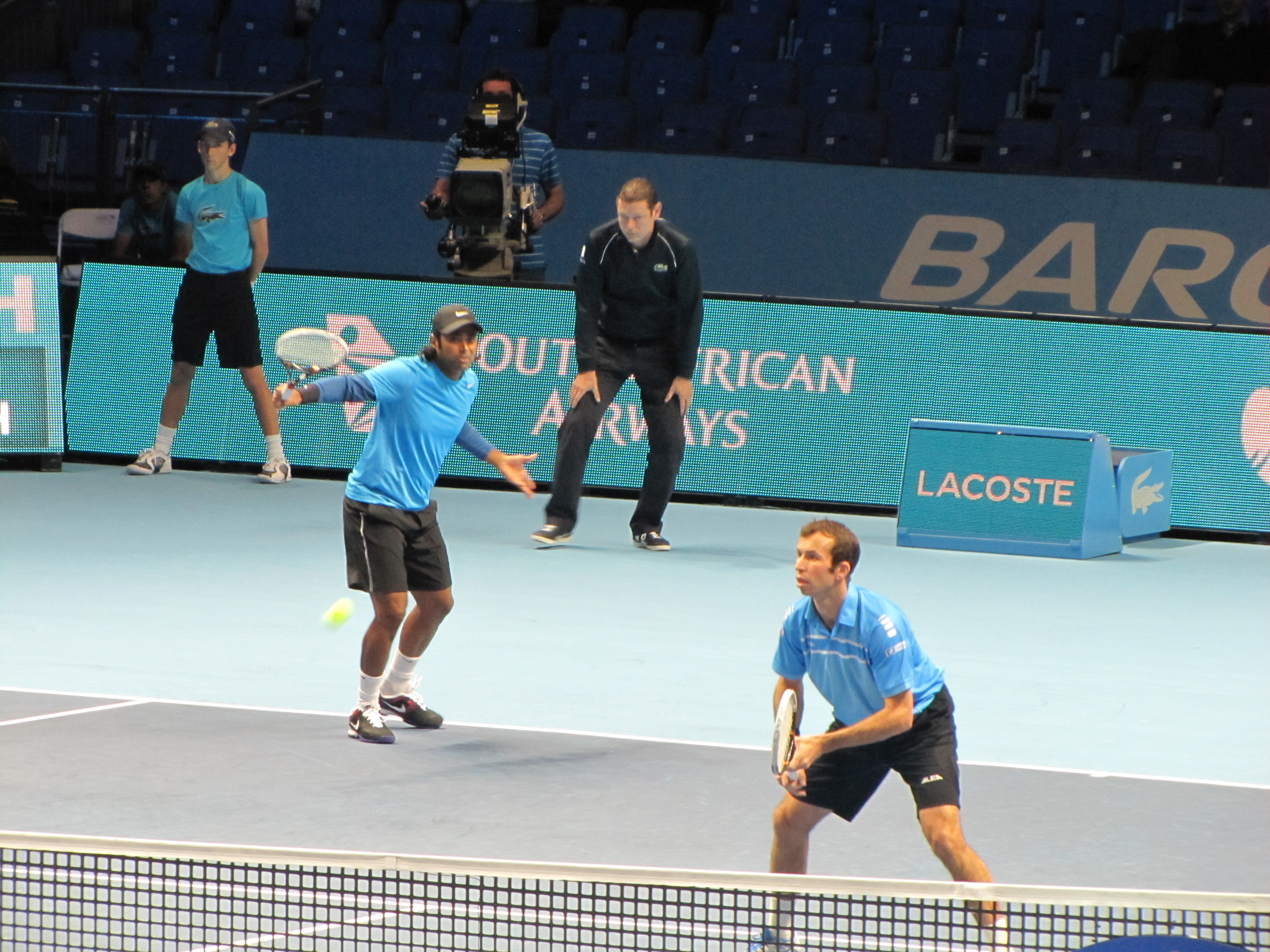 Leander Paes (left) and Radek Stepanek (right), in the 2012 APT World Tour finals at the O2 arena against Bob Bryan and Mike Bryan